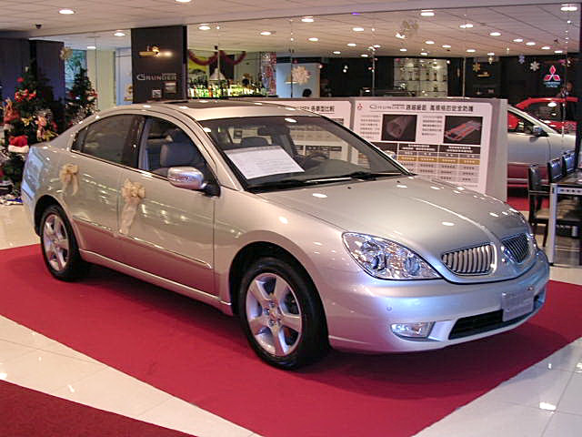 Mitsubishi Galant Grunder made by China Motor Corporation.